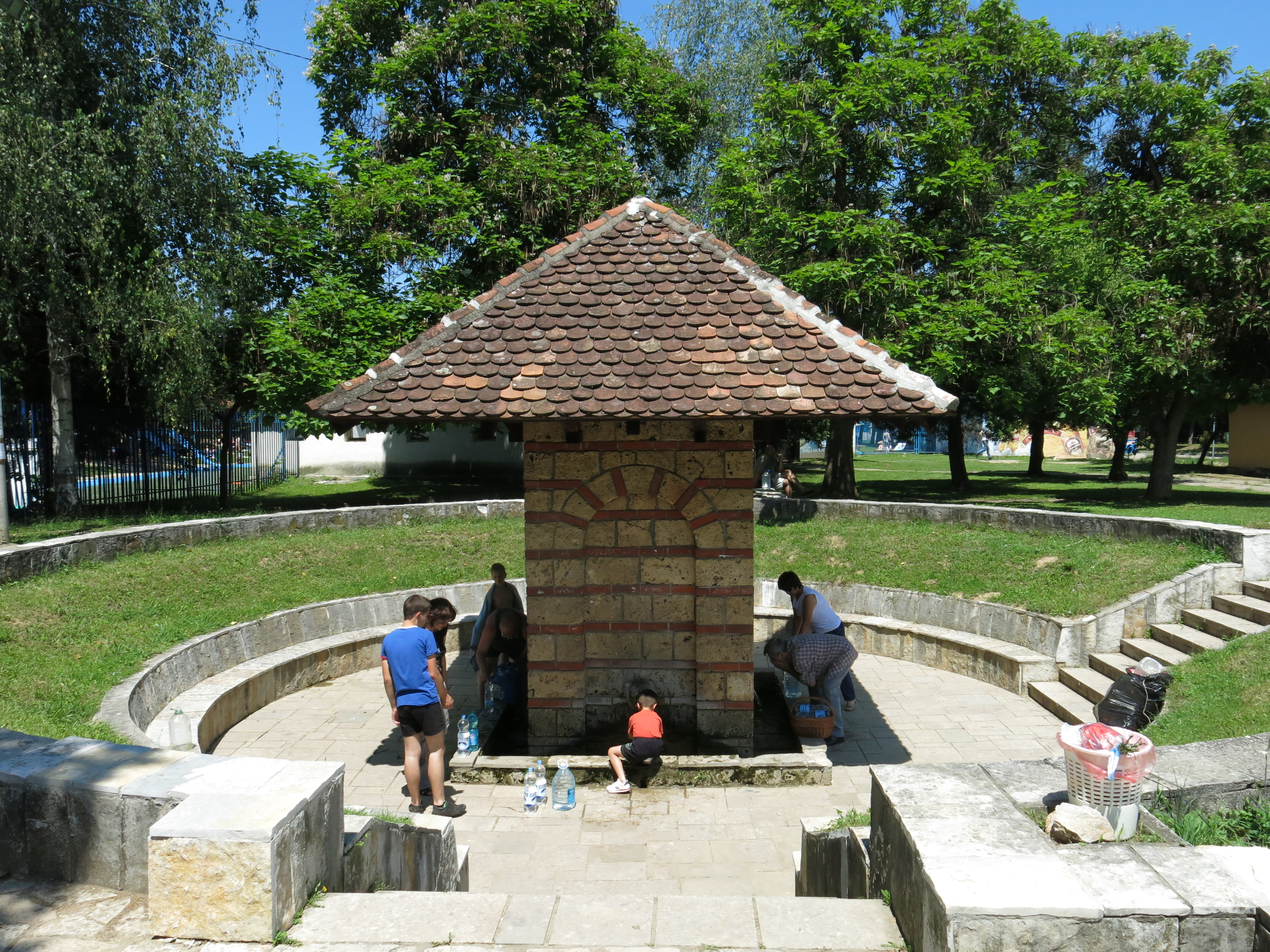 Vrujci, Vrujci spa center